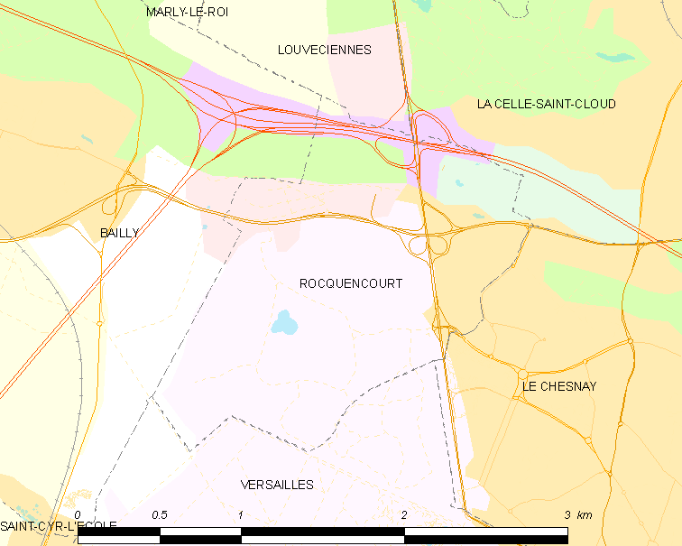 Map of French municipality Rocquencourt